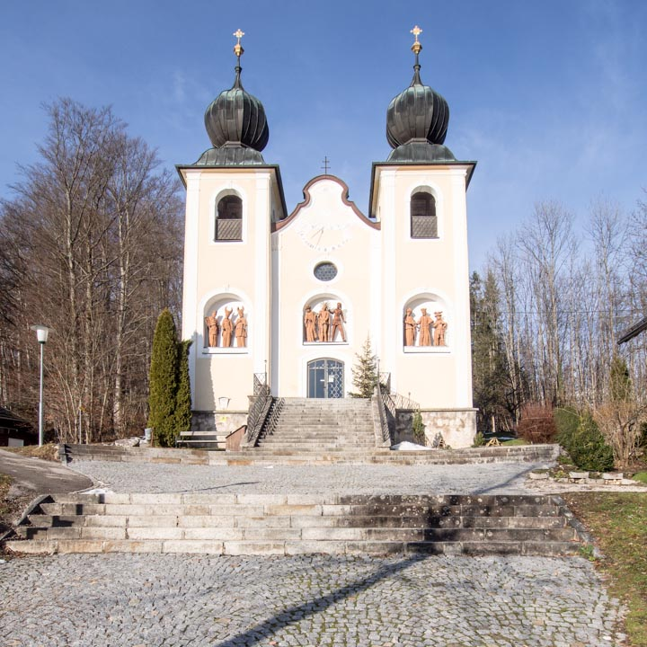 Calvary church, Ahorn, municipality of Bad Ischl.